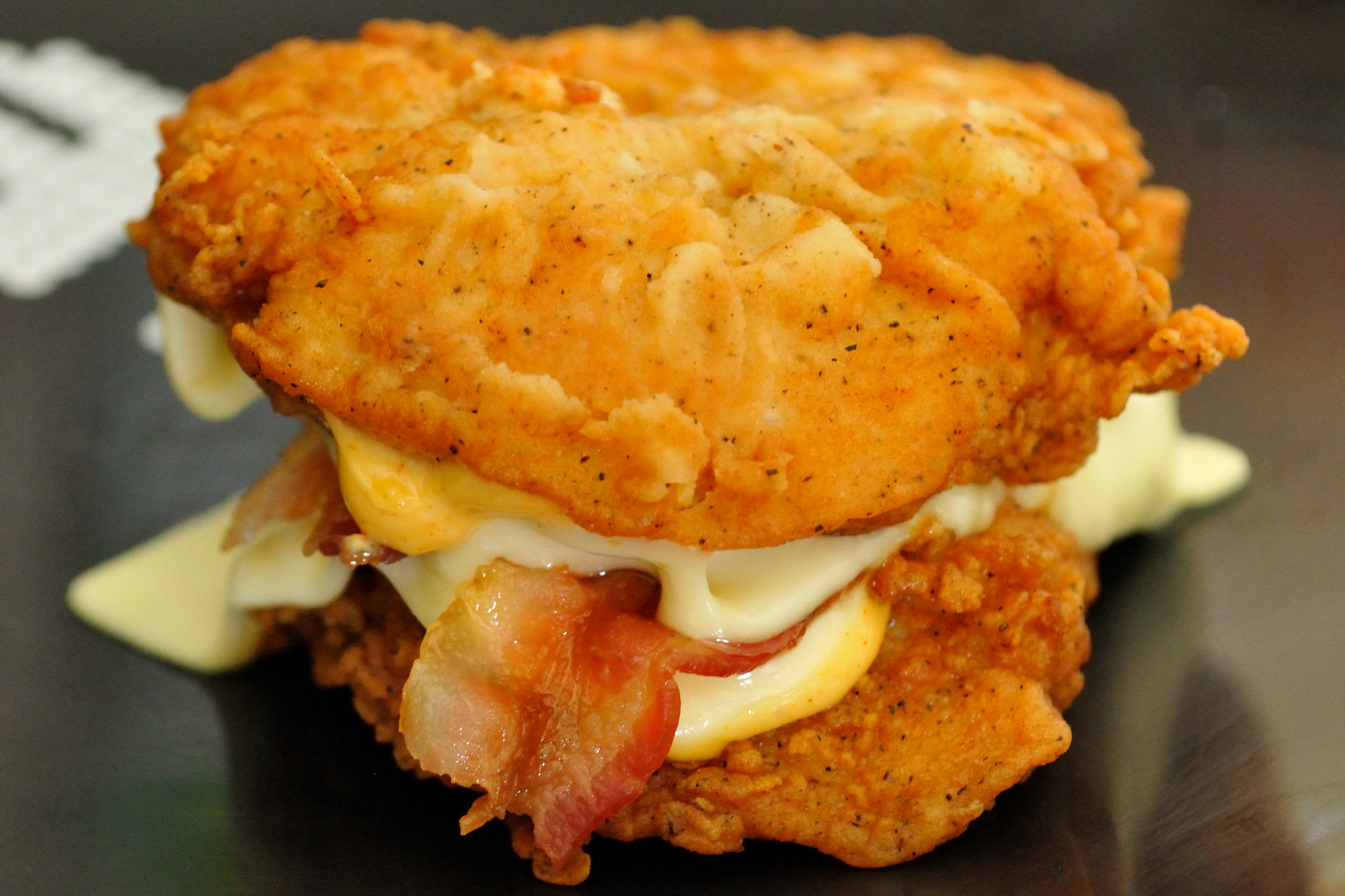 Kentucky Fried Chicken's breadless chicken "sandwich," composed of 2 fried chicken filets, bacon, pepper Jack cheese, Monterey Jack cheese and Colonel's Sauce